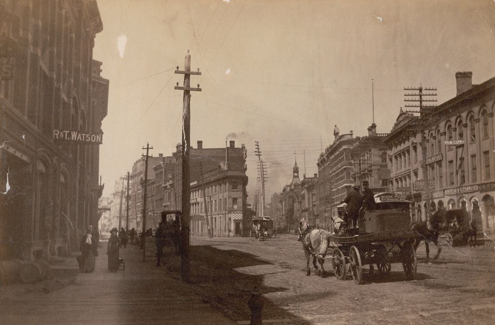 Wholesale Stores. Front & Wellington Sts. at Church St. Toronto, Canada. See Image:Front and Church, Toronto, ON.JPG for 2007 view of same intersection. The building is the centre of the photo was known as the "Coffin Block".